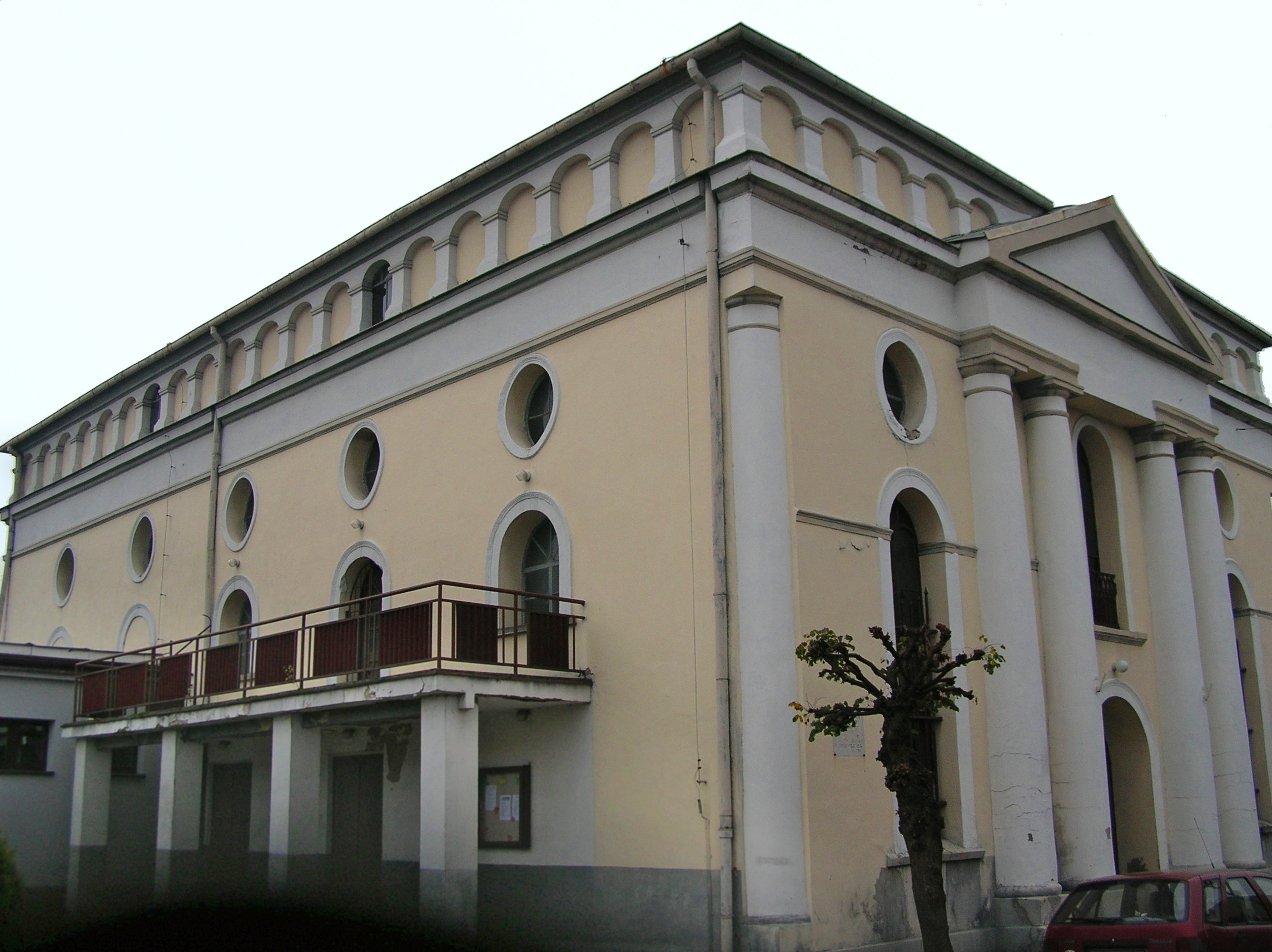 Synagogue in Praszka